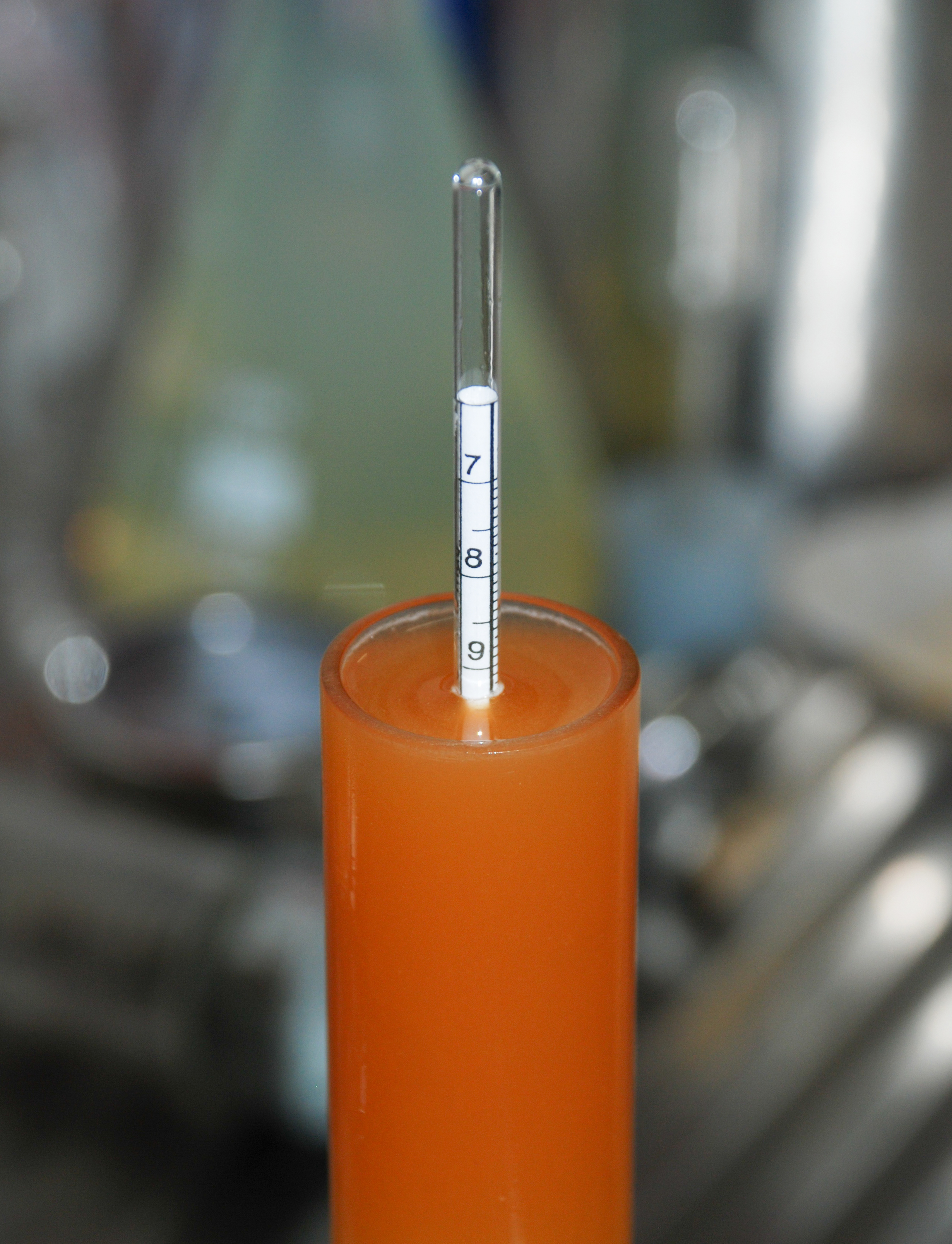 residual sugar test of beer during fermentation (fourth day) - preparation of HannoverWikiRed beer (Dunkel (dark) beer with creative commons license)